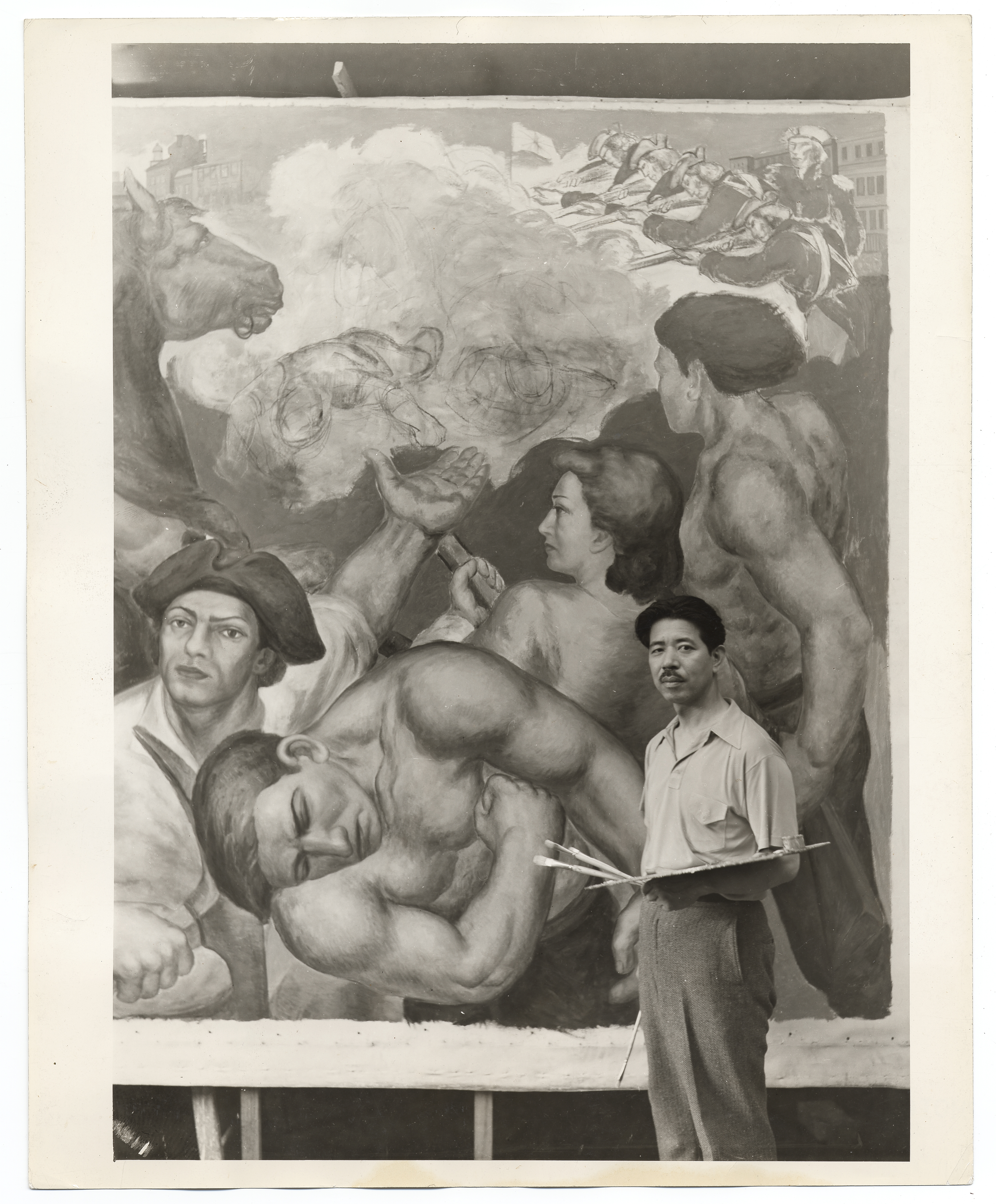 Ishigaki standing before his painting Identification on verso (handwritten): Harlem Court House, Artist: Ishigaki.